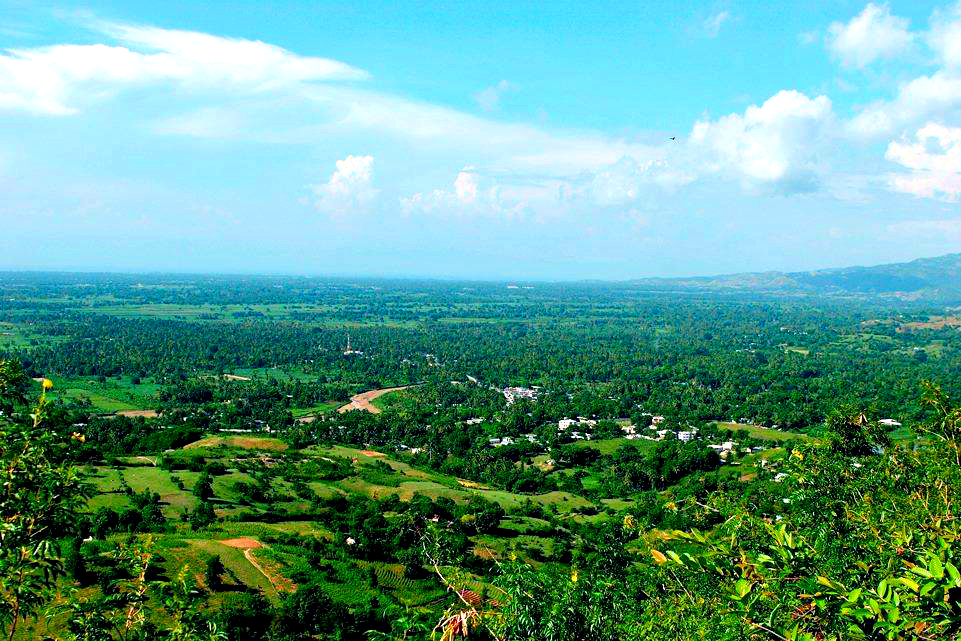 Ville de Léogâne, Haiti skyline view